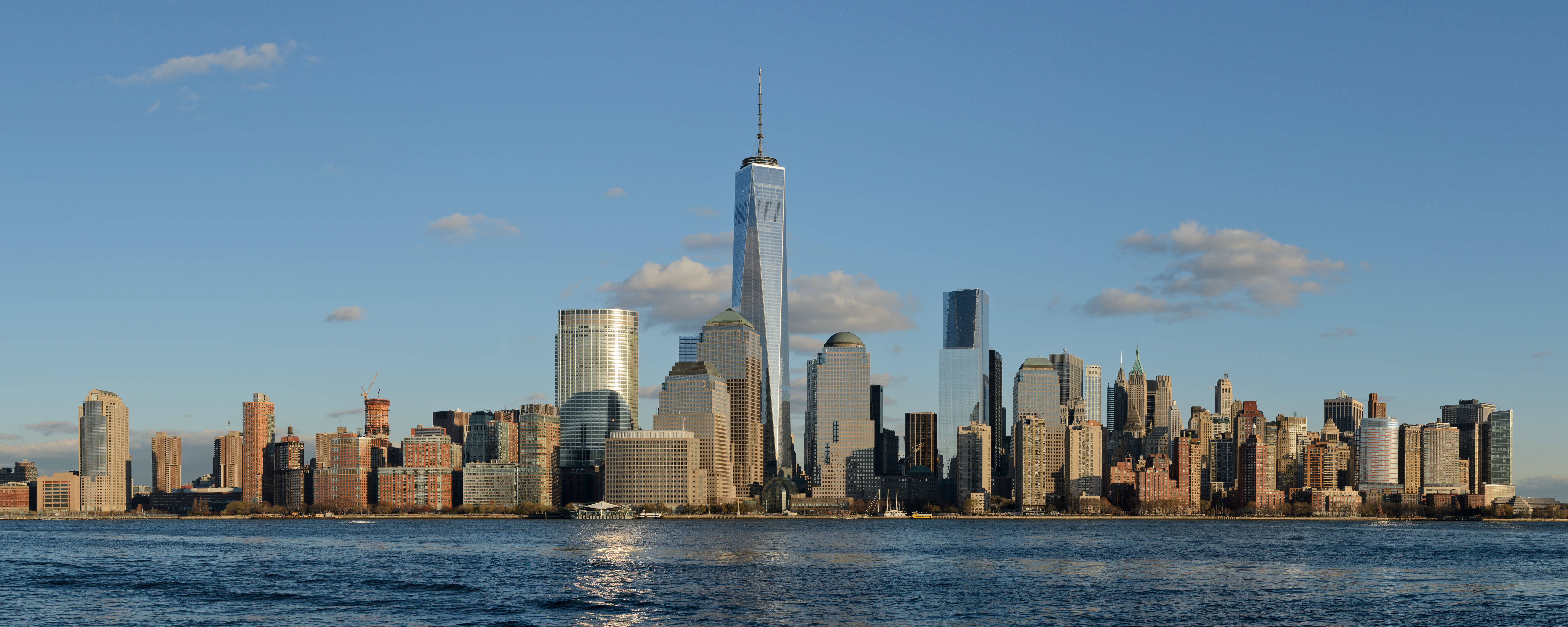 Four-segment panorama of Lower Manhattan, New York City, as viewed from Exchange Place, Jersey City, New Jersey.